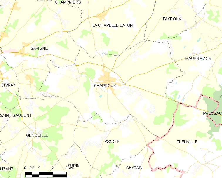 Map of French municipality Charroux